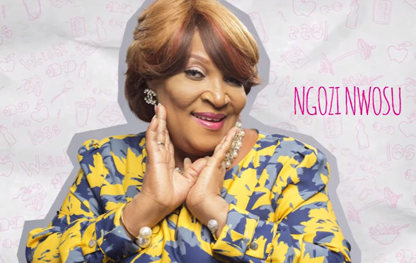 Nigerian TV = SKINNY GIRL IN TRANSIT S3E8 : TURNING POINT from NDaniTV with Creative Commons Jan 2017